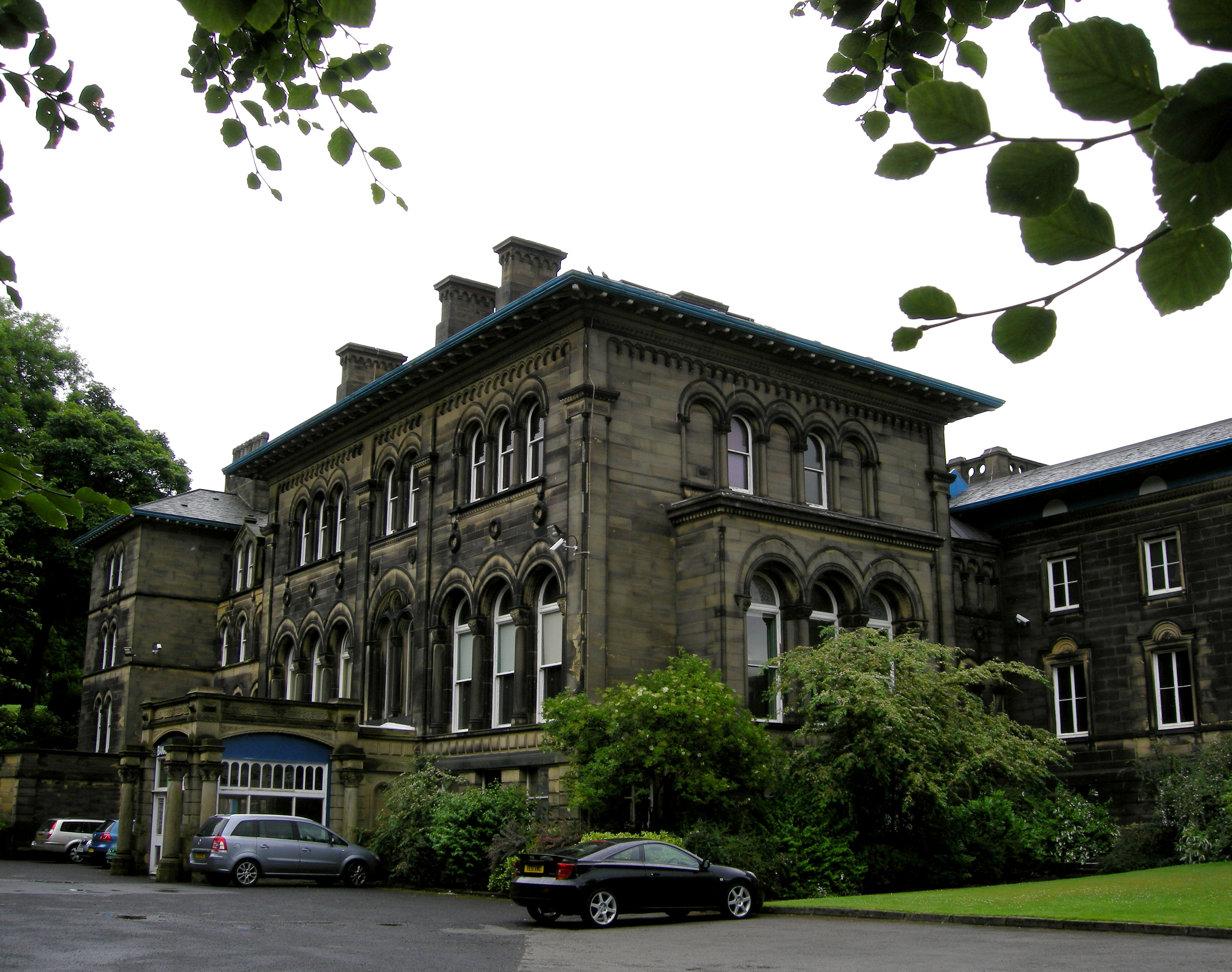 Bankfield Museum, Halifax, West Yorkshire, England. 53.43'.57".N; 1.51'.48".W.